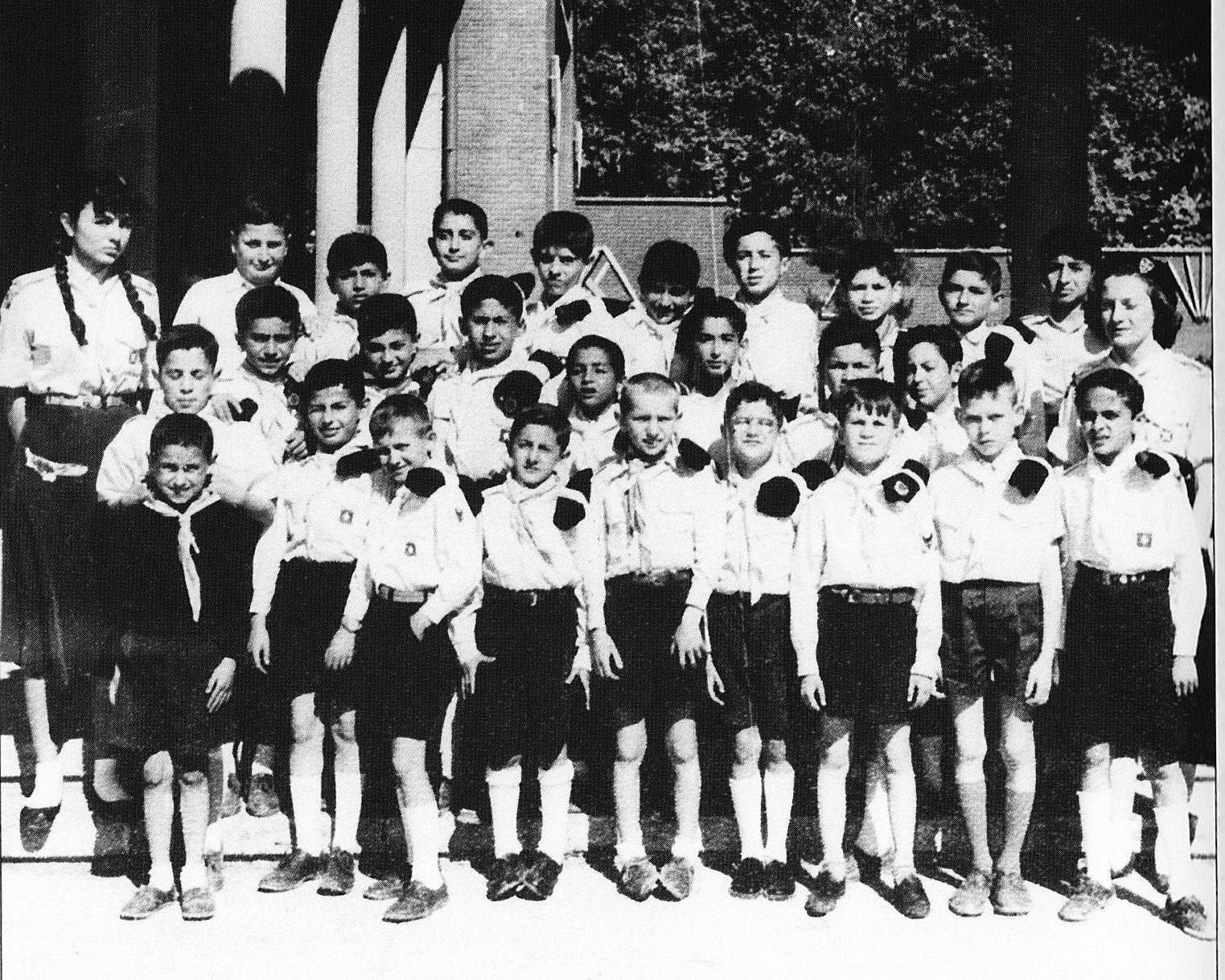 Farah Diba, with Iranian boyscouts in Paris